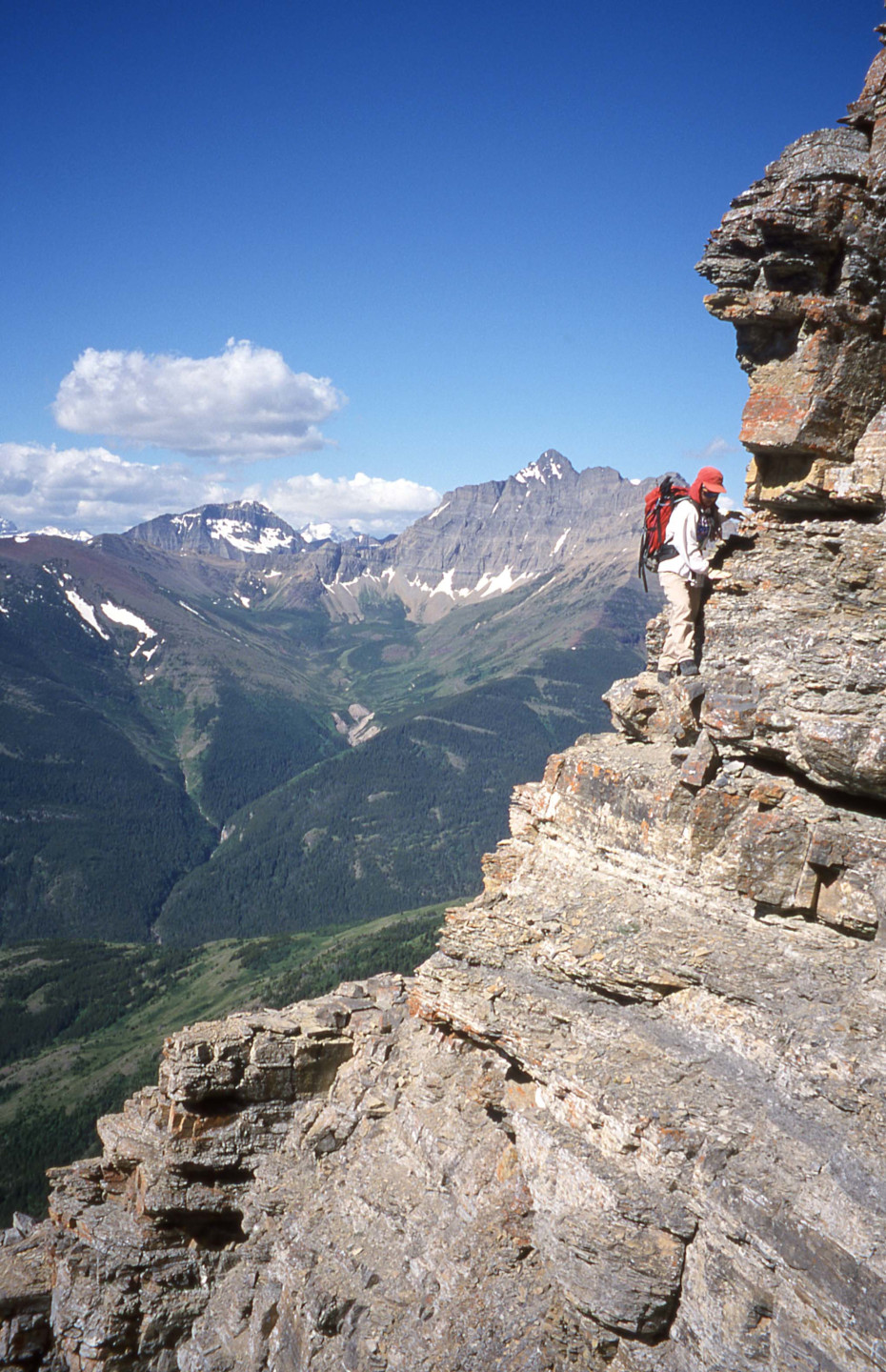 The photo is taken on an ascent of the standard route up Mount Galwey (2348 m high) in Waterton National Park. The scrambler is traversing a ledge just before reaching the actual crux of the ascent. This ascent is rated a difficult scramble. - Photo by Alan Kane